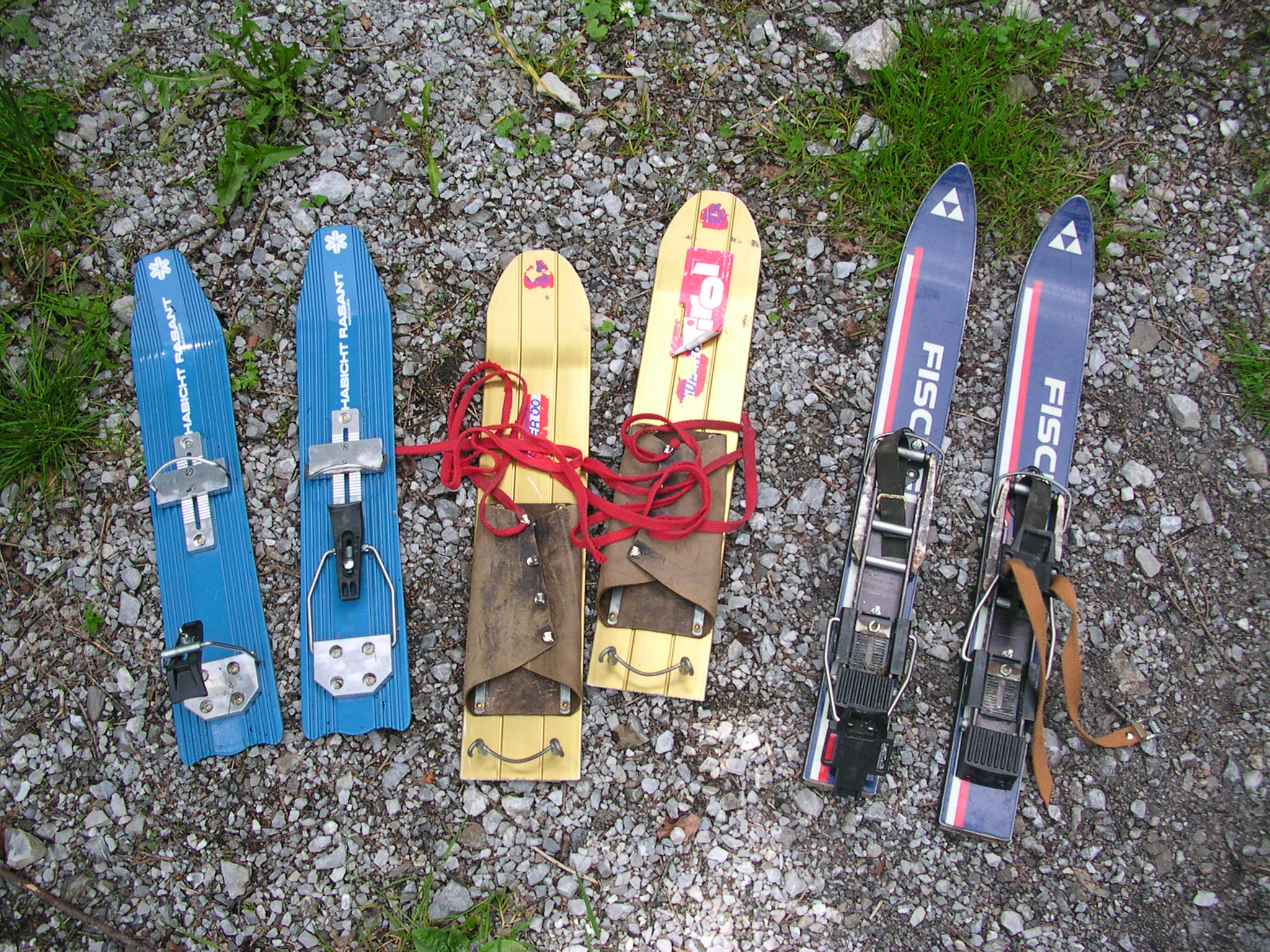 Firngleiter (Figl). Secial Short Skis for gliding down steep Slopes in Spring. Different bindings